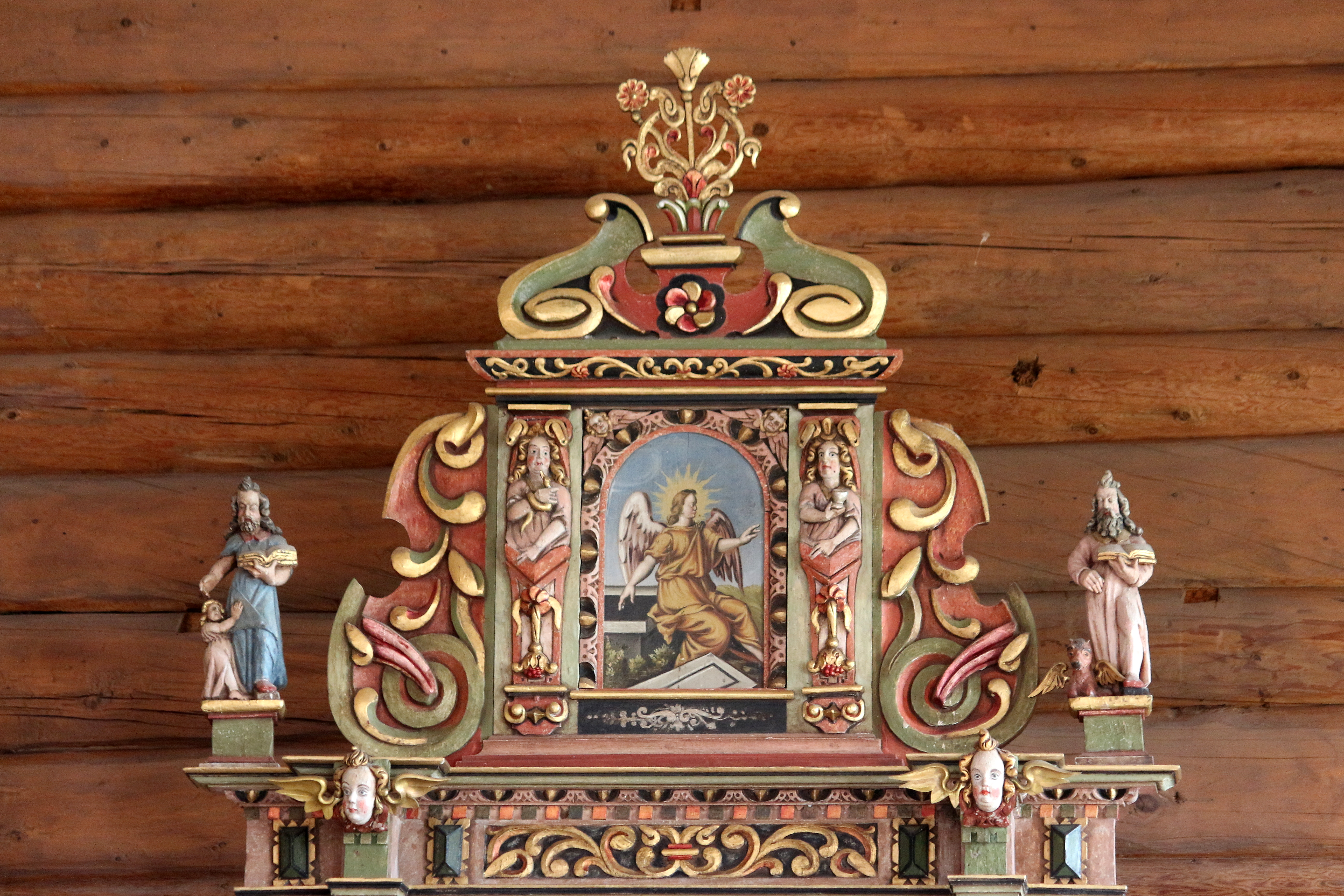 Leksvik church - upper part of the altarpiece.